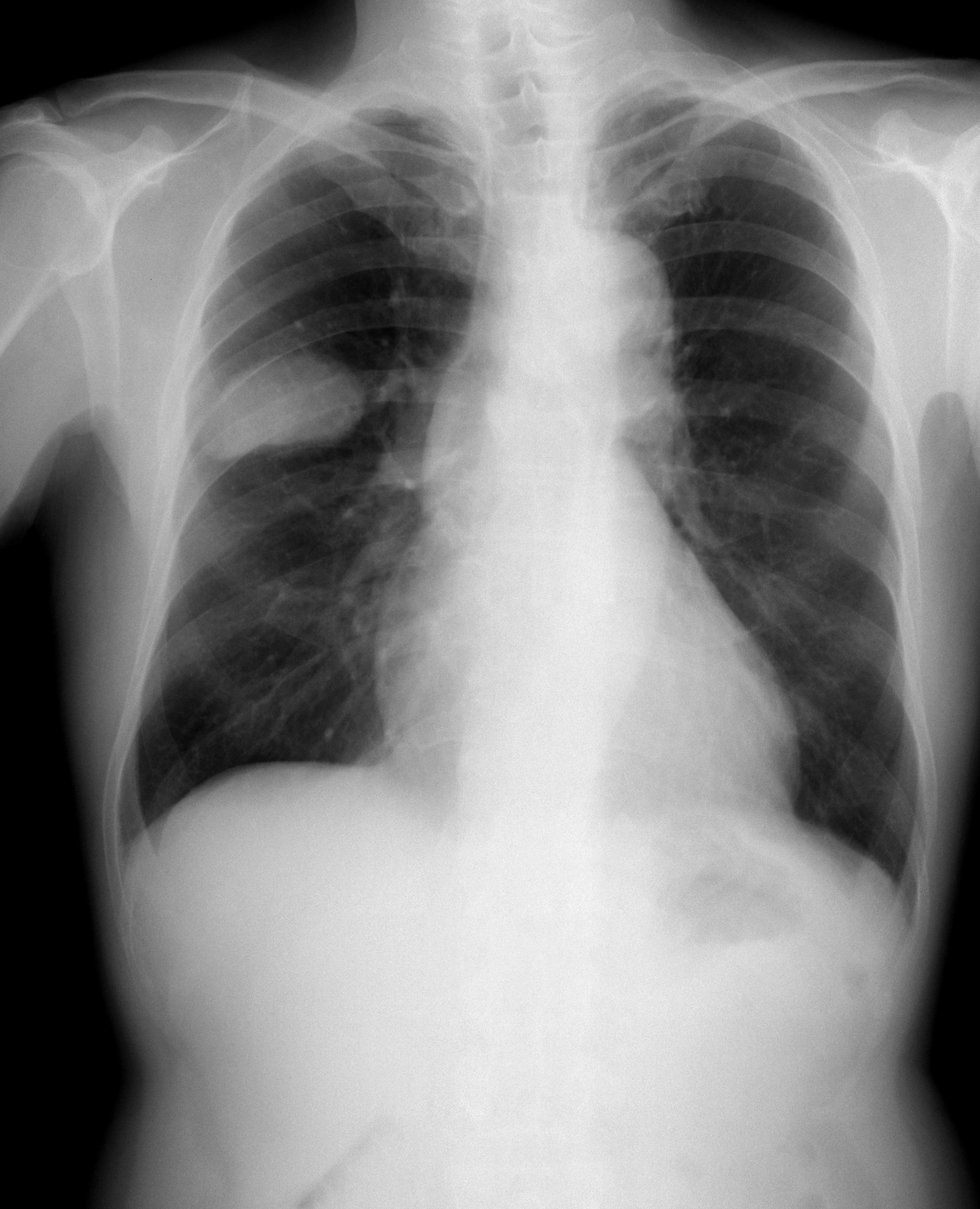 right-side S2+S3, small cell lung cancer, male, 66y.o